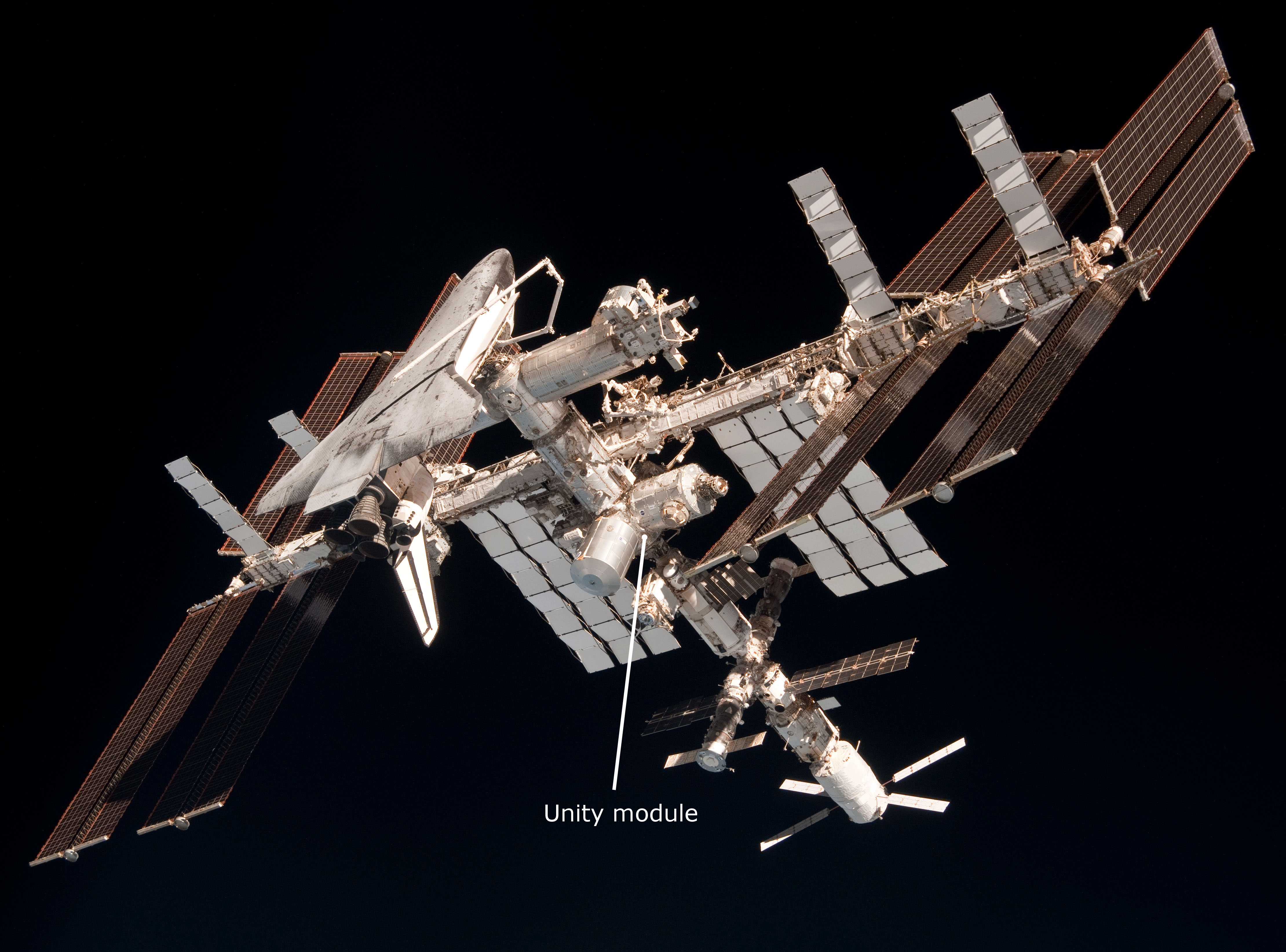 None.